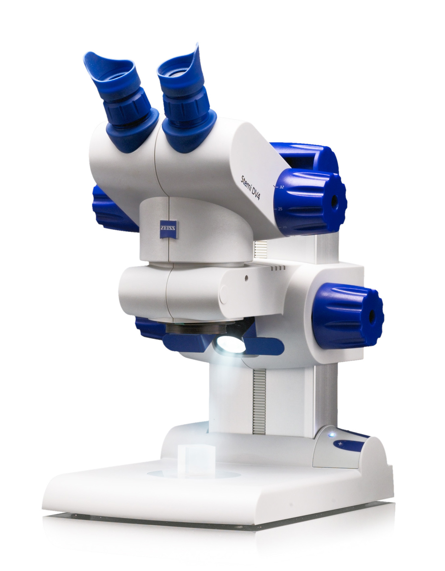 4x zoom and 100% focus: Stemi DV4 is more than an inexpensive microscope. The patented zoom of Stemi DV4 guarantees brilliant images in high resolution. View your samples with precise focus through the full zoom range: From 8x to an impressive 32x magnification. Get a crisp threedimensional image with crisp contrast and zoom freely from an overview to the smallest details.